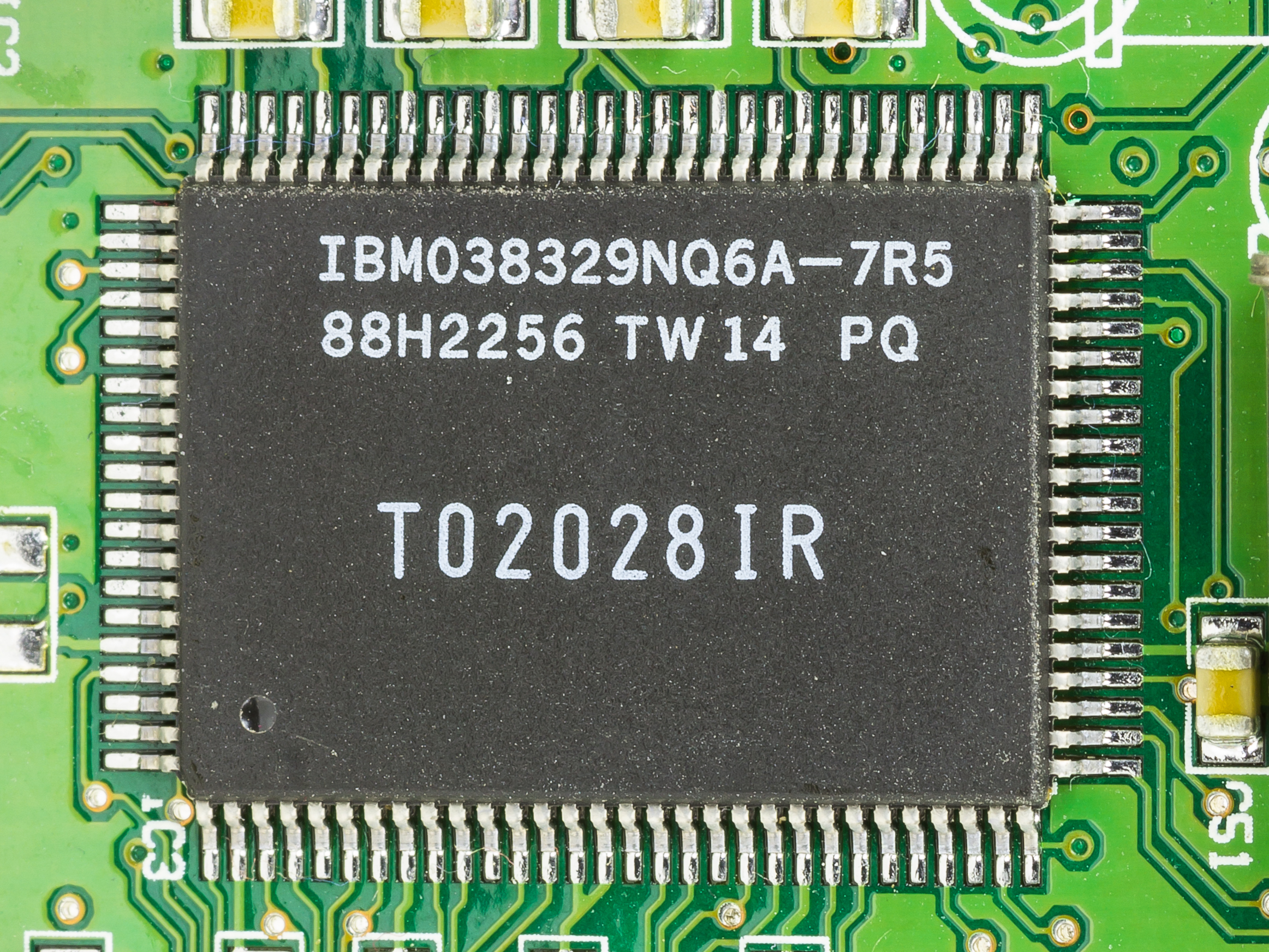 Elsa Victory Erazor-AGP-4 - IBM038329NQ6A-7R5 - 256K x 32 Synchronous Graphics RAM. Package: 100-pin LQFP